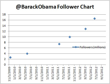 Chart of Barack Obama followers on his Twitter account